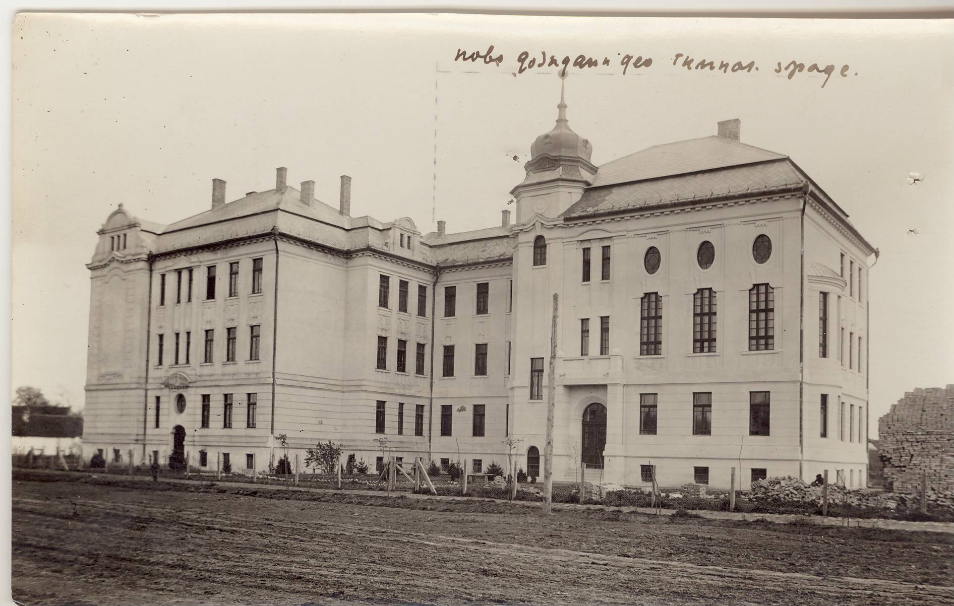 The building of the Jan Kolar gymnasium in Bački Petrovac, first half of the 20th century. Museum of vojvodinian Slovaks, inventory number 1692.